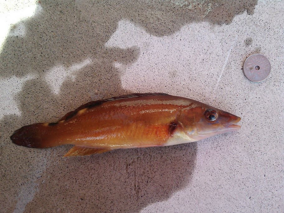 A female Female Cuckoo Wrasse compared to 5 NOK.